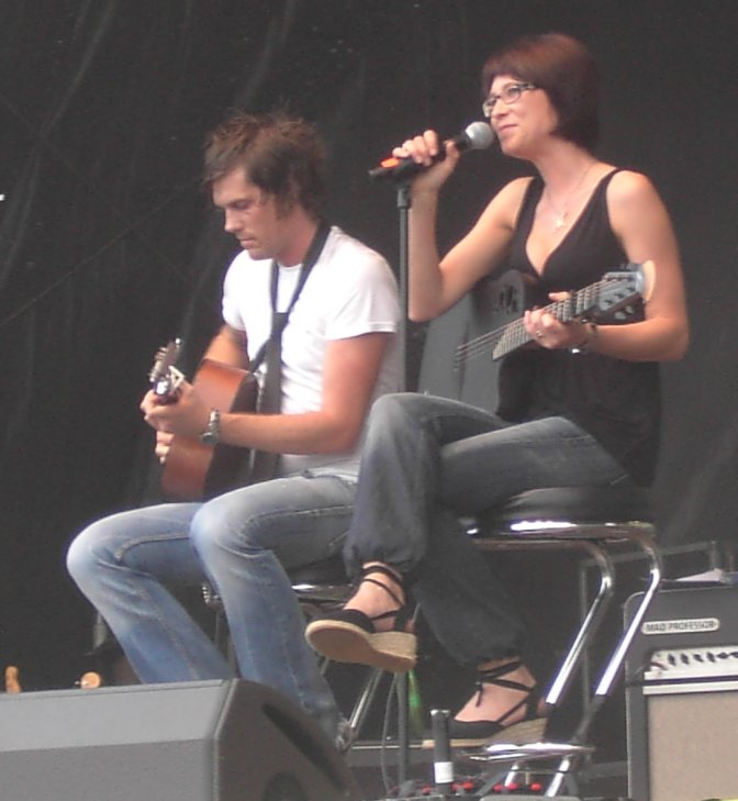 Vocalist Marie Lindberg at the Rix FM-festivalen in Norrköping. She performs her song Trying to Recall together with Jocke Ramsell